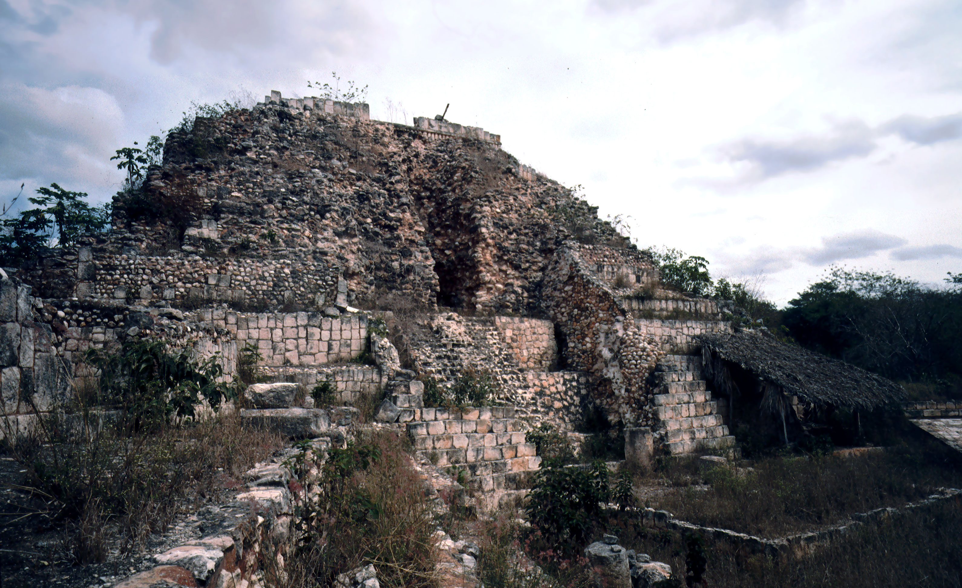 Chac II, Yucatan, Mexico: pyramid.